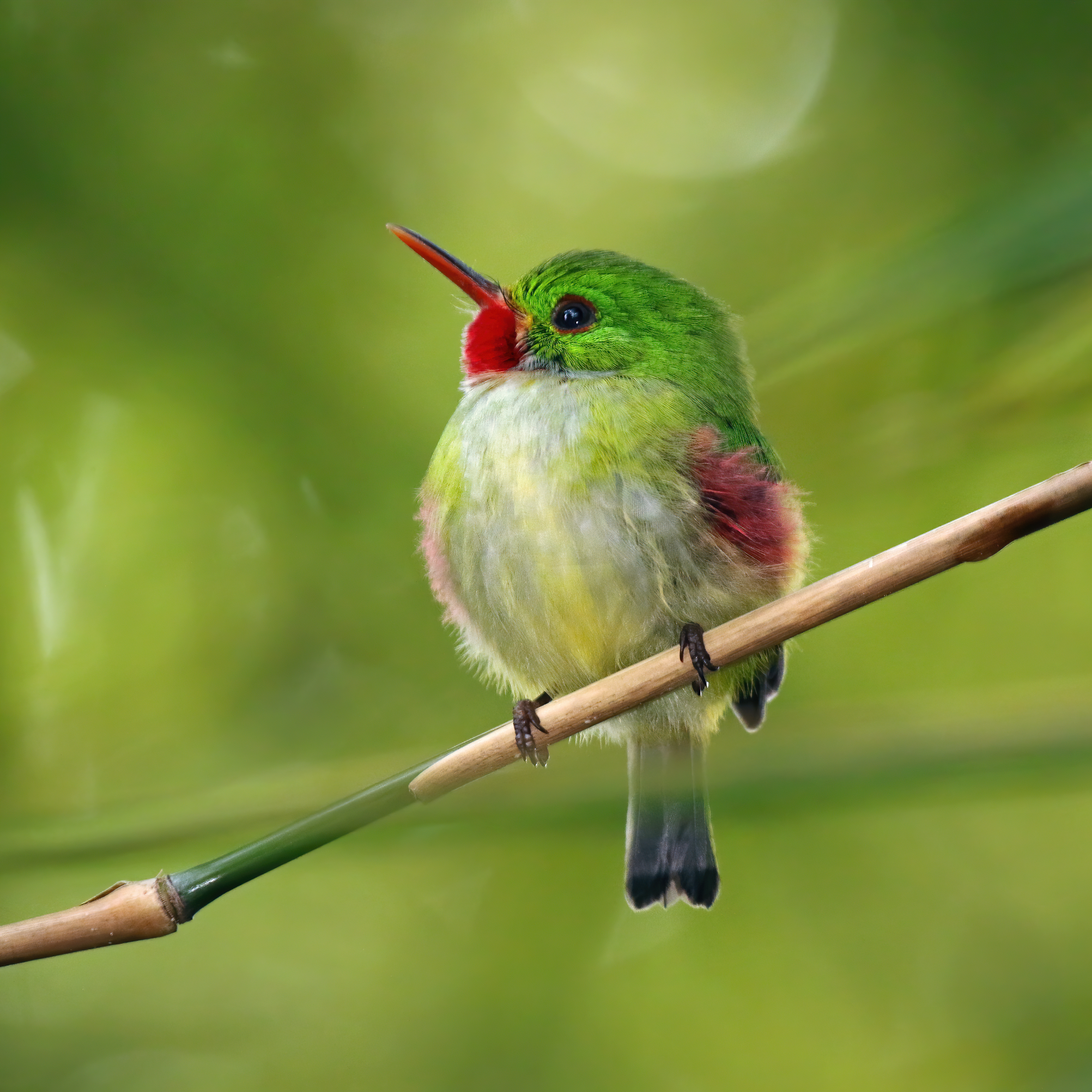 Jamaican tody (Todus todus), Jamaica